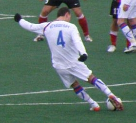 Sergei Ignashevich in action for PFC CSKA Moscow